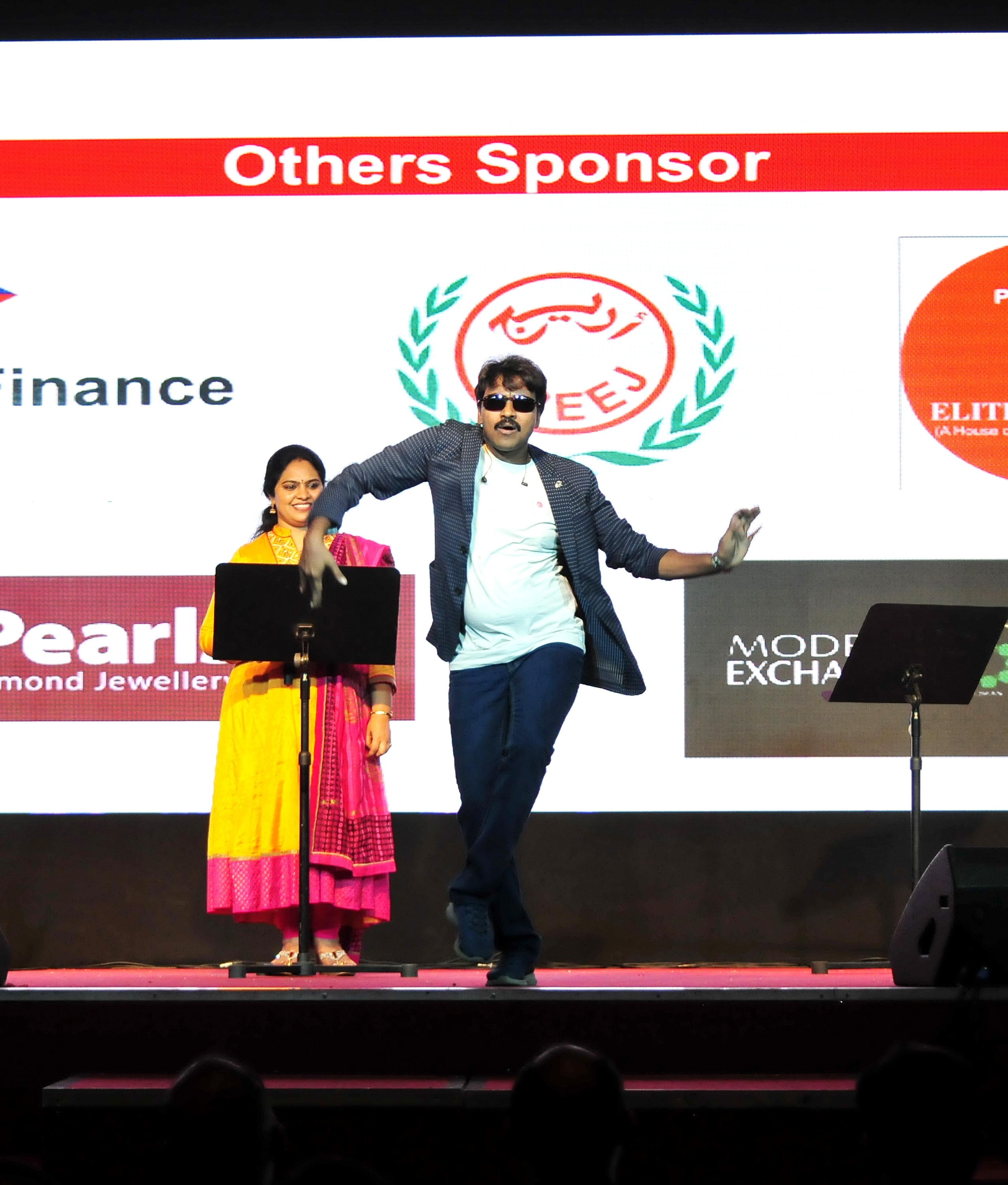 Mallikarjun performing at Muscat